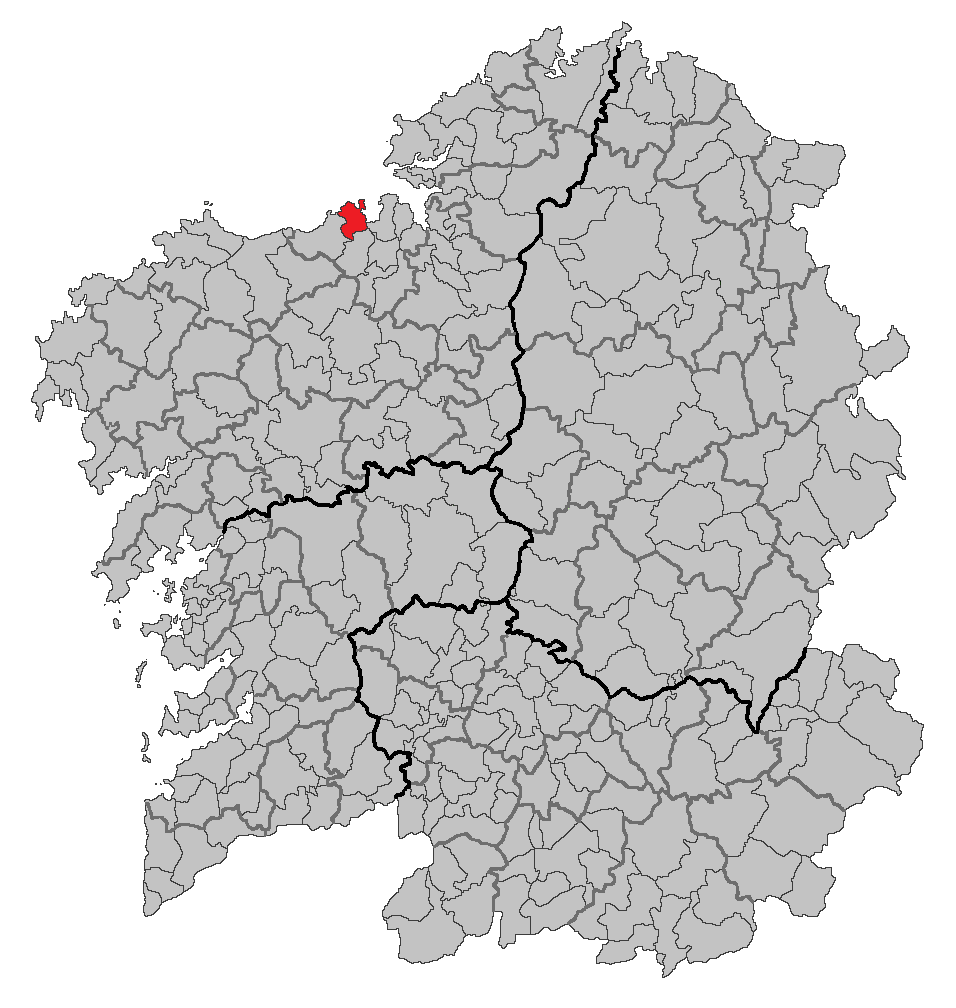 Location map of A Coruña, A Coruña (province), Galicia.